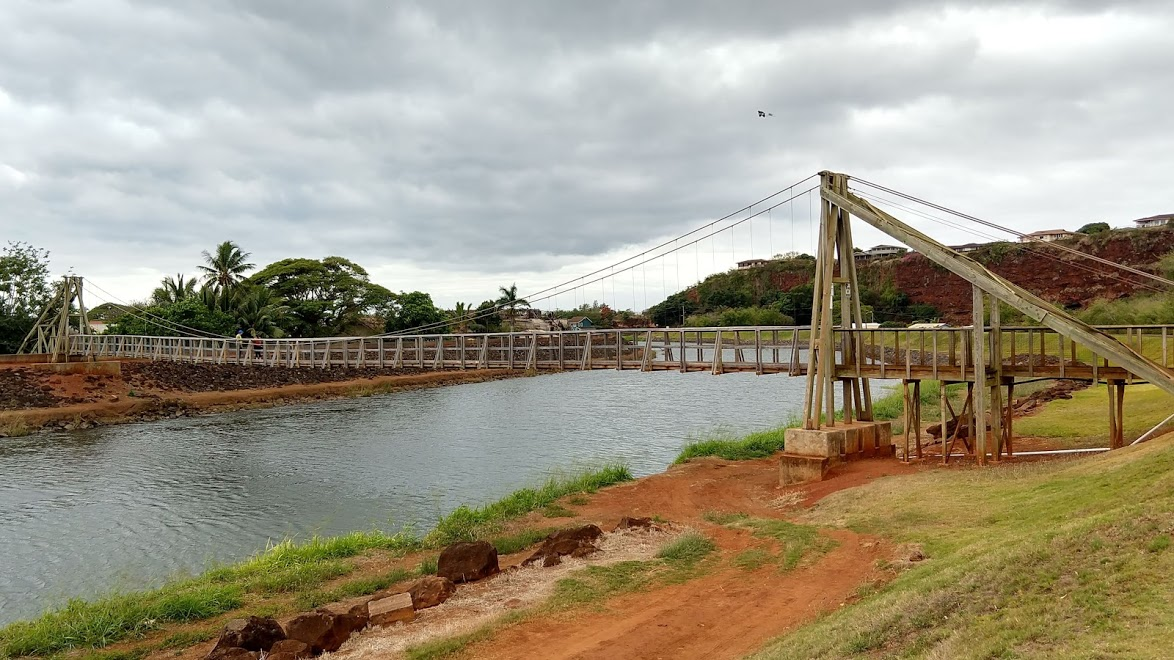 A side view of the Swinging footbridge in Hanapepe, Kauai, Hawaii.